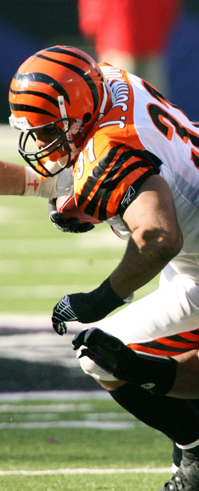 Jeremi Johnson runs the ball. Ray Lewis misses tackling him.